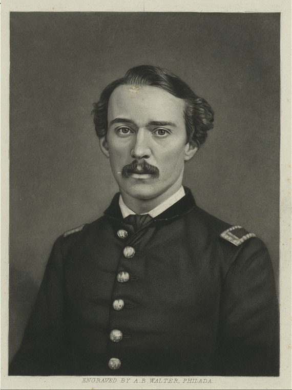 Engraved portrait of Lieut. John Trout Greble by A. B. Walter, Phil., New York Public Library